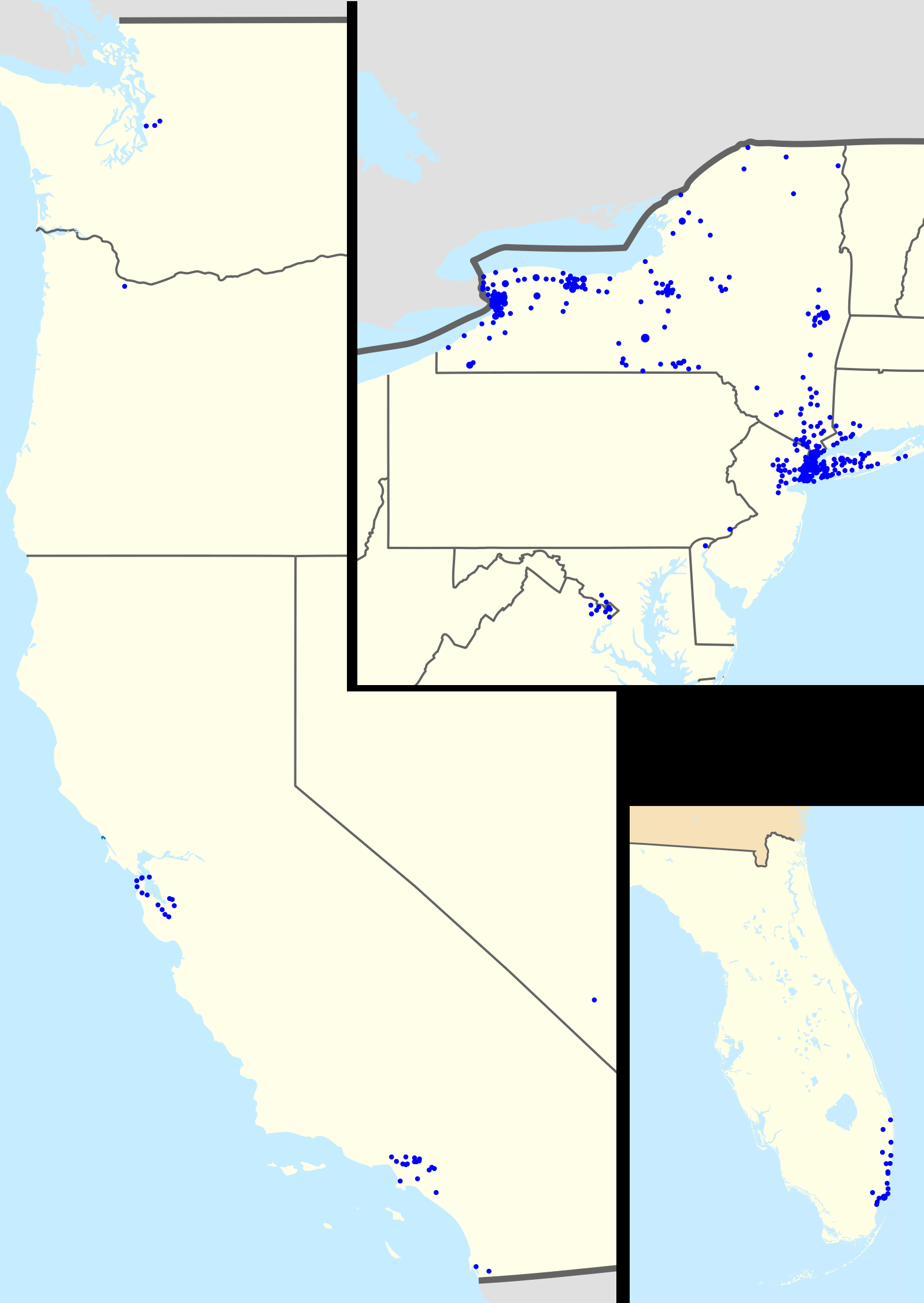 Footprint of HSBC Bank USA branches within the United States. Zip codes with more than one branch have progressively larger points. On the left, the US west coast, on the upper right, the eastern seaboard (New York state to Washington DC), the lower right: Florida.